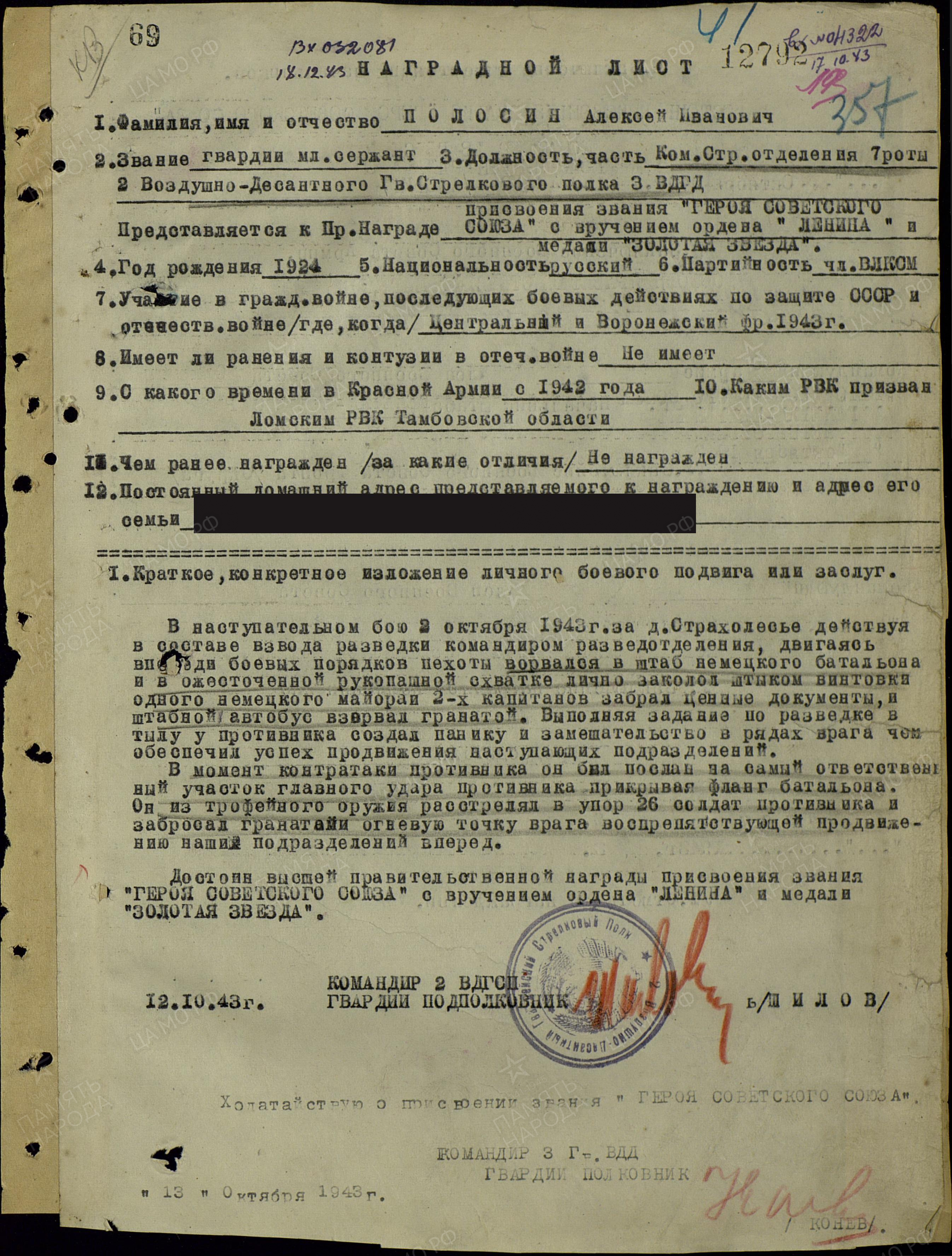 Alexey Ivanovich Polosin's Hero of the Soviet Union citation